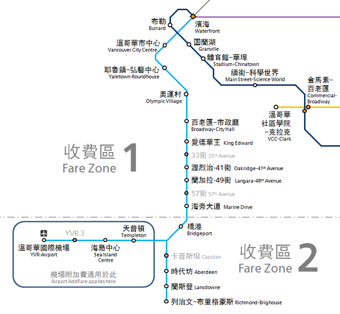 Map of Vancouver SkyTrain Canada Line with planned future stations. 中文（香港）: 溫哥華架空列車 加拿大線路線圖（連擬建車站）。